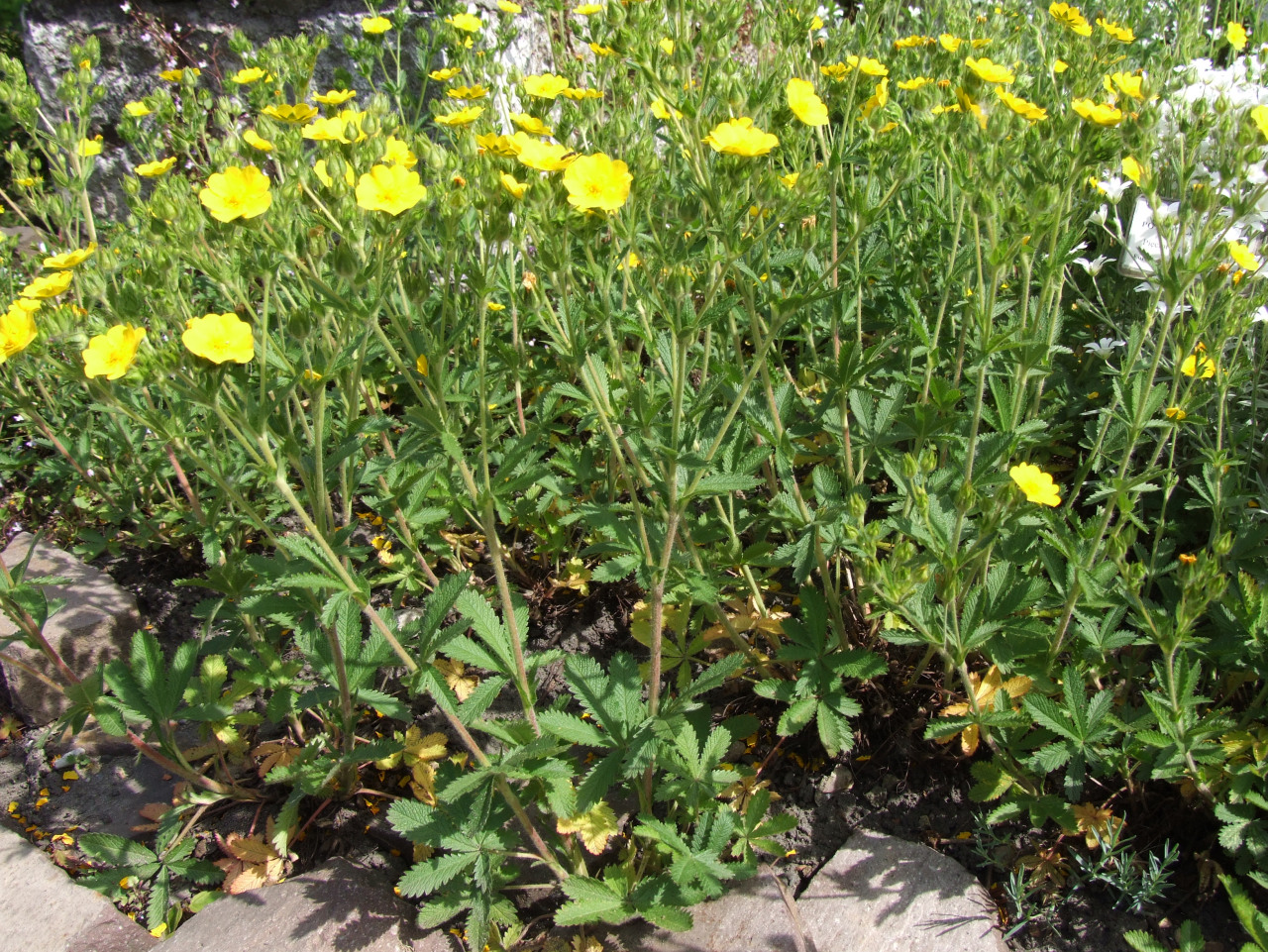 Potentilla recta (location: Poland, West Tatra Mountains, Dolina Lejowa)